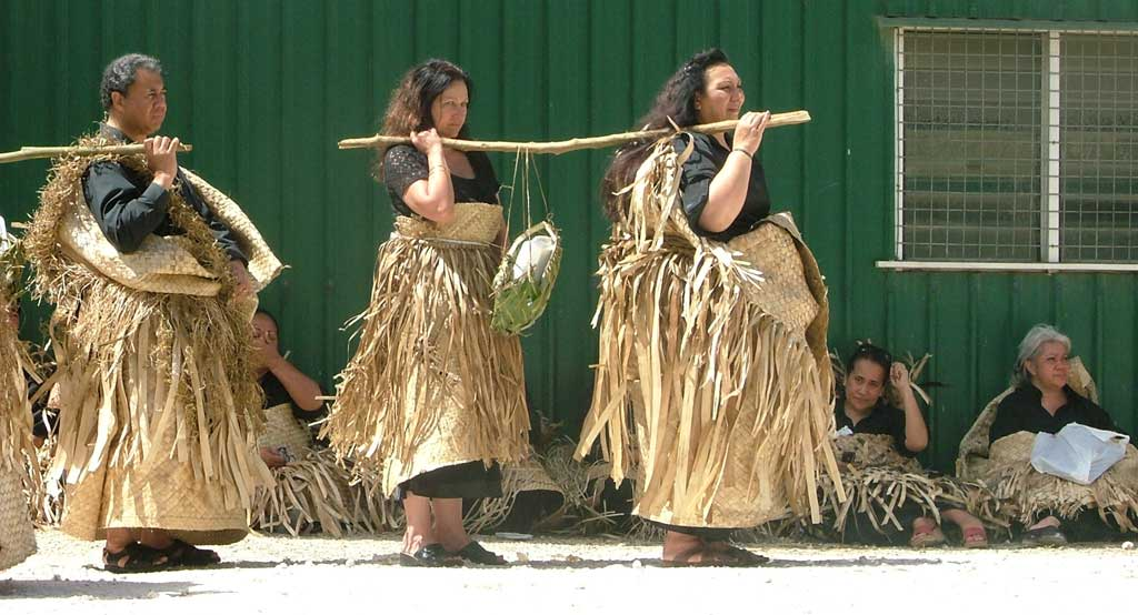 The Tuita family (left front: Maʻulupekotofa, right front: Pilolevu) bringing in their haʻamo food offering for the mourning period of king Tupou IV